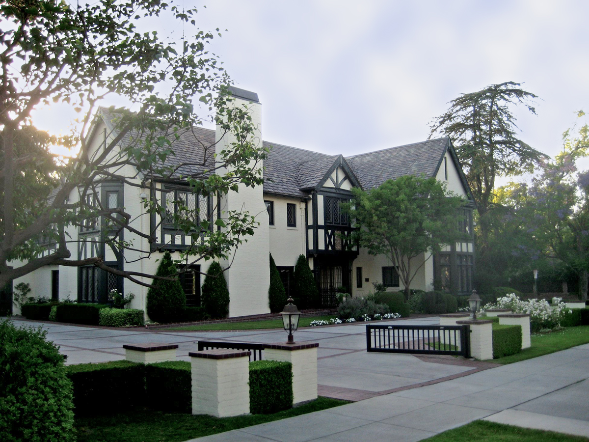 Getty House — in the Windsor Square neighborhood, Los Angeles, California. The "official" home of the Mayor of Los Angeles. A Los Angeles Historic-Cultural Monument.